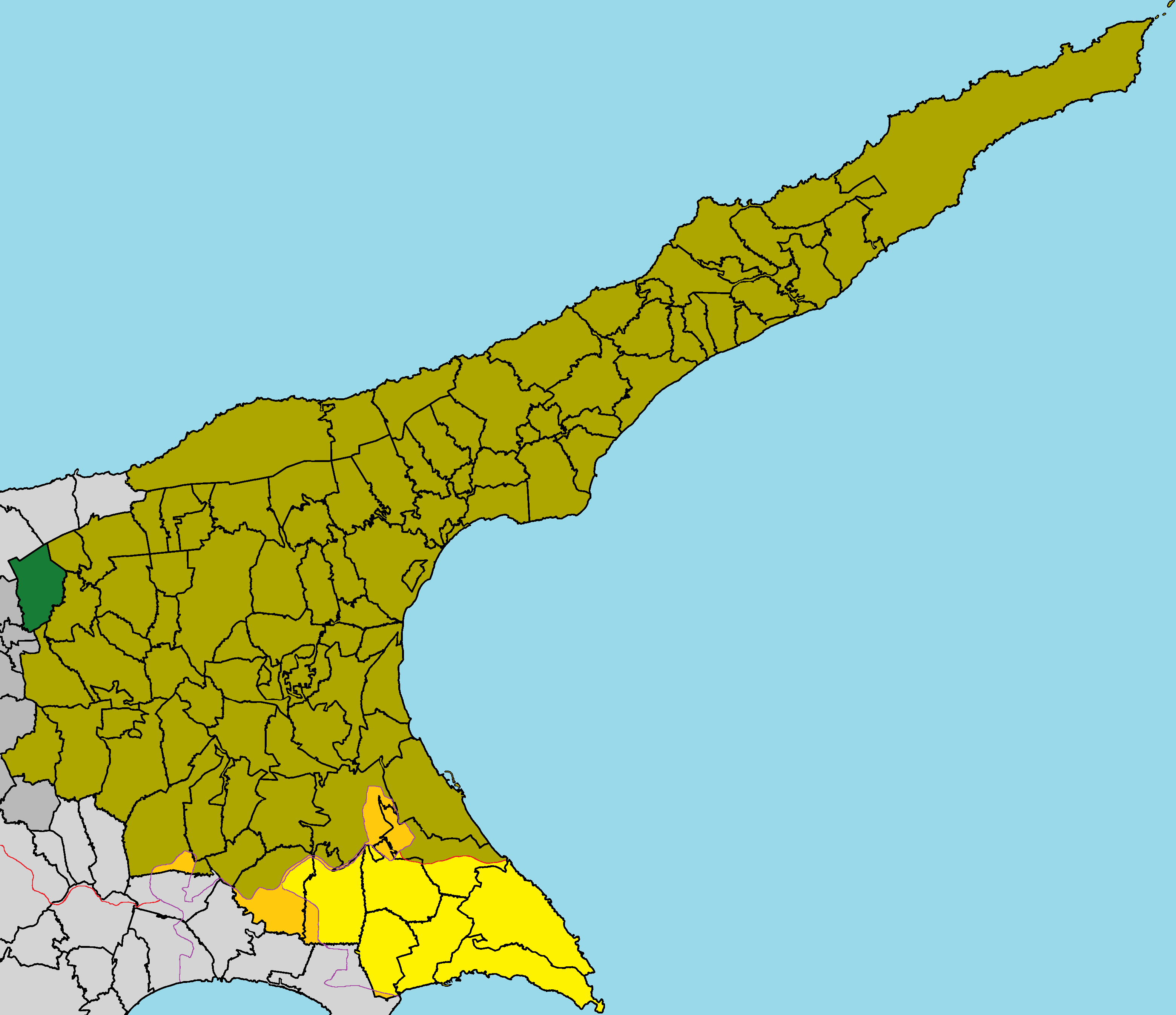 Kornokipos in Famagusta District (de jure).